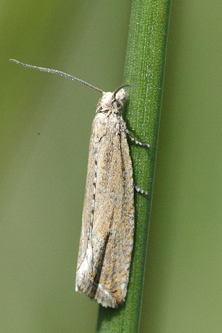 Picture taken in Commanster, Belgian High Ardennes . Species: Bactra lancealana